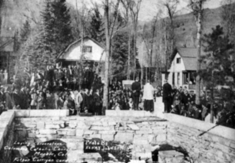 1912 Marble, Colorado, south side of Park Street between West 3rd and West 2nd Street. Foundation corner ceremony for the Columbus Catholic Church. The Yule marble was being donated by the Colorado Yule Marble Company workers were donation the labor. Construction went no further than the foundation. The company president died of injurines from an accident in August 1912 and his successor did not want to continue with the donations. A large amount of the foundation still exists (November 2011) and the cabin on the far right still exists (November 2011)